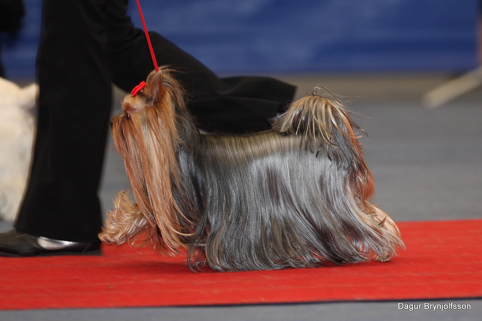 Yorkshire terrier at an international dog show in October 2009.